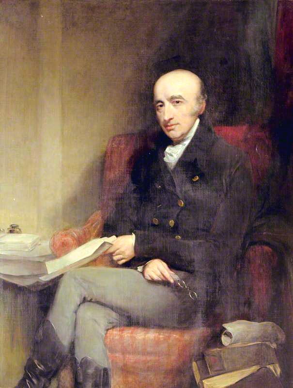 Painting of William Hyde Wollaston, the scientist